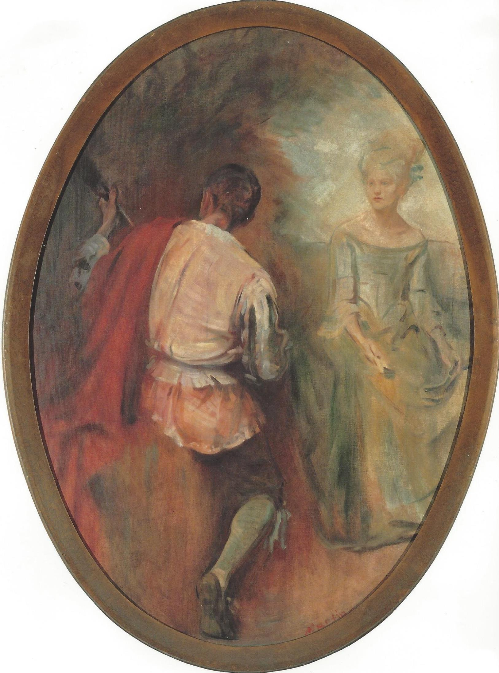 Painting by Umberto Martina; Summer 111x156 cm, commissioned circa 1919 by Giulio Ciriani.